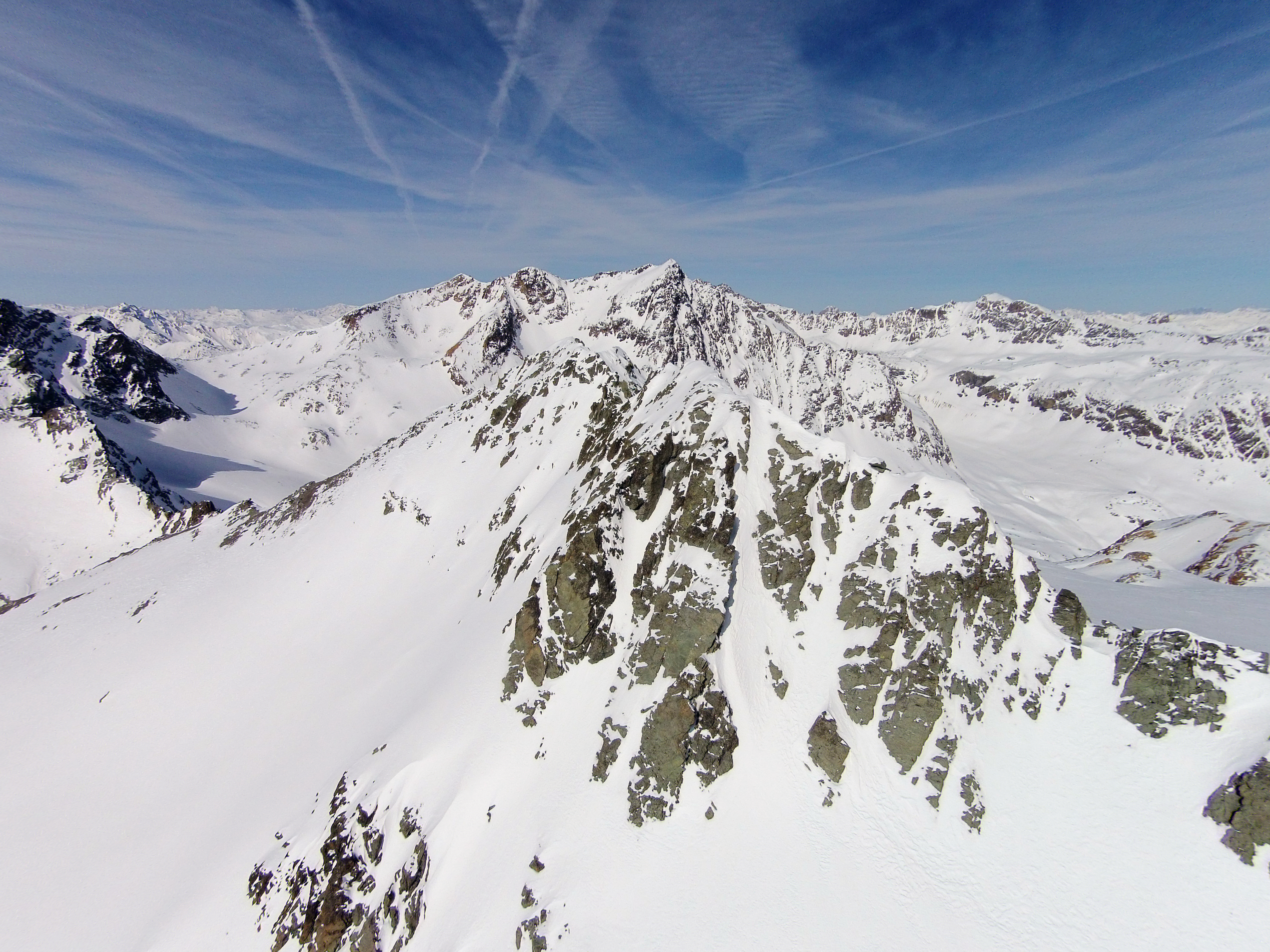 Aerial recording of Piz Surgonda (western summit, 3193 m, Bivio/Bever, Grisons, Switzerland)